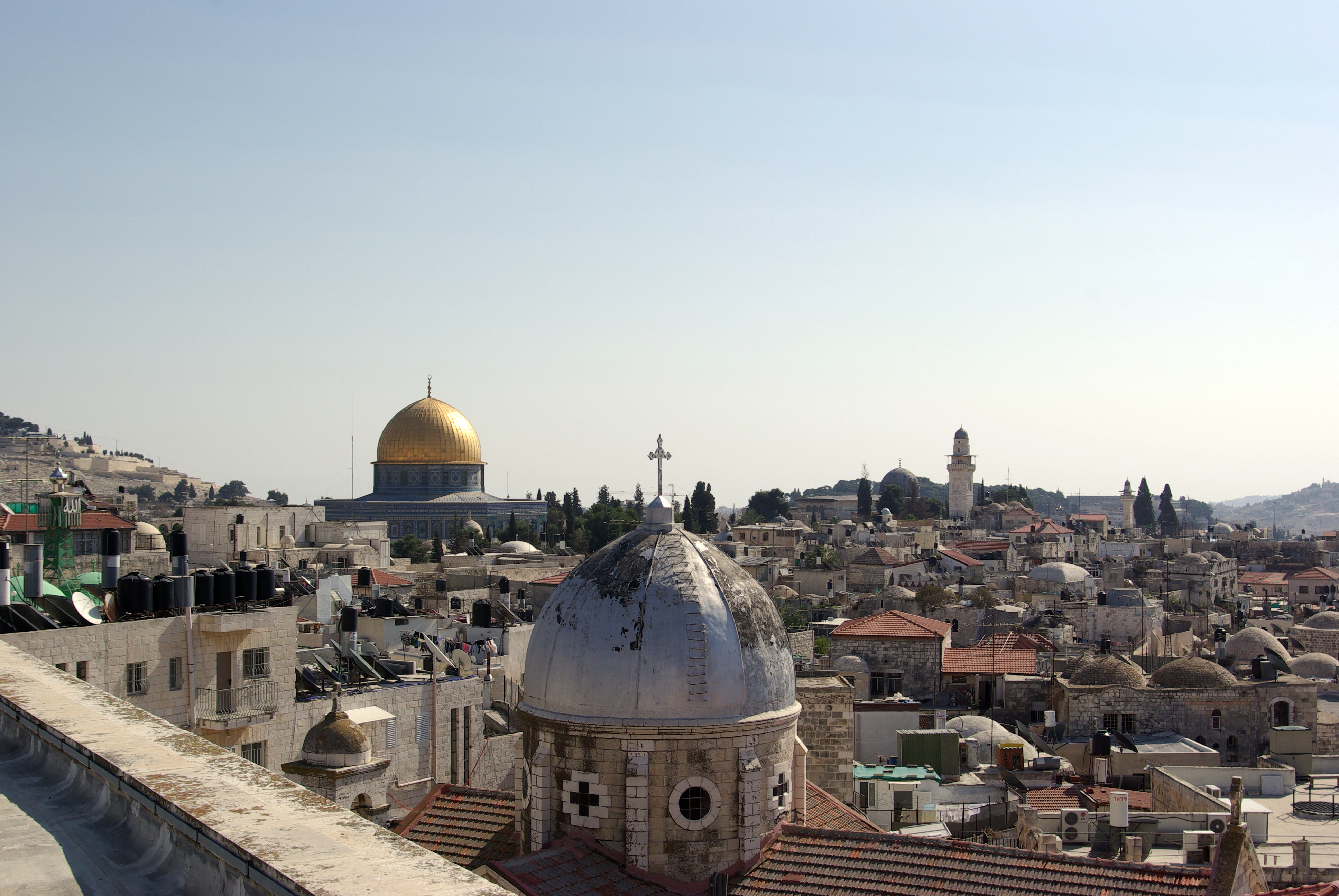 Jerusalem, Dome of the Rock seen from the roof of the Austrian Hospice. In the foreground the cupola of the armenian church on the right the Al-Aqsa mosque. Photo taken from the roof terrace of the Austrian Hospice of the Holy Familiy in the Muslim Quarter of old Jerusalem, looking towards the south. In the foreground the silver dome of the armenian catholic church "Our Lady of the Spasm". Before this church is the Fourth station of the Via Dolorosa. In the background, left side, the golden Dome of the Rock.